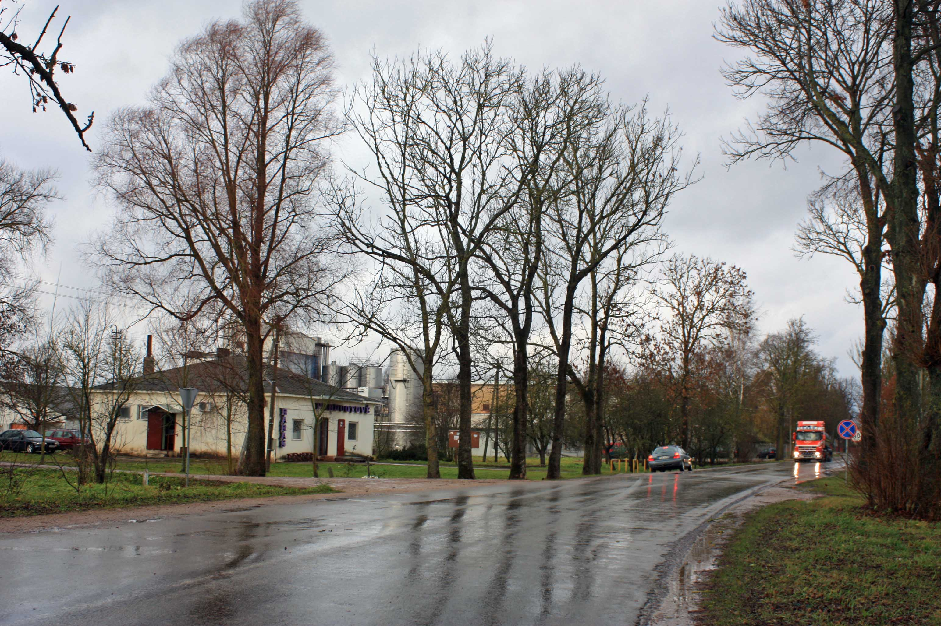 Medeikiai, Biržai district, Lithuania